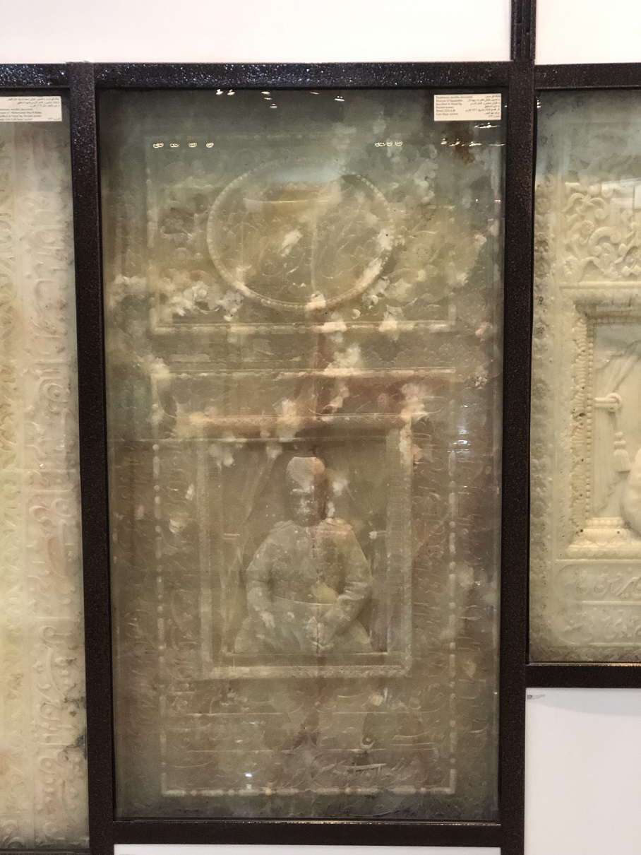 Gravestone of Mirza Hosein Khan Moshir od-Dowleh at Shah Abdul Azim Museum